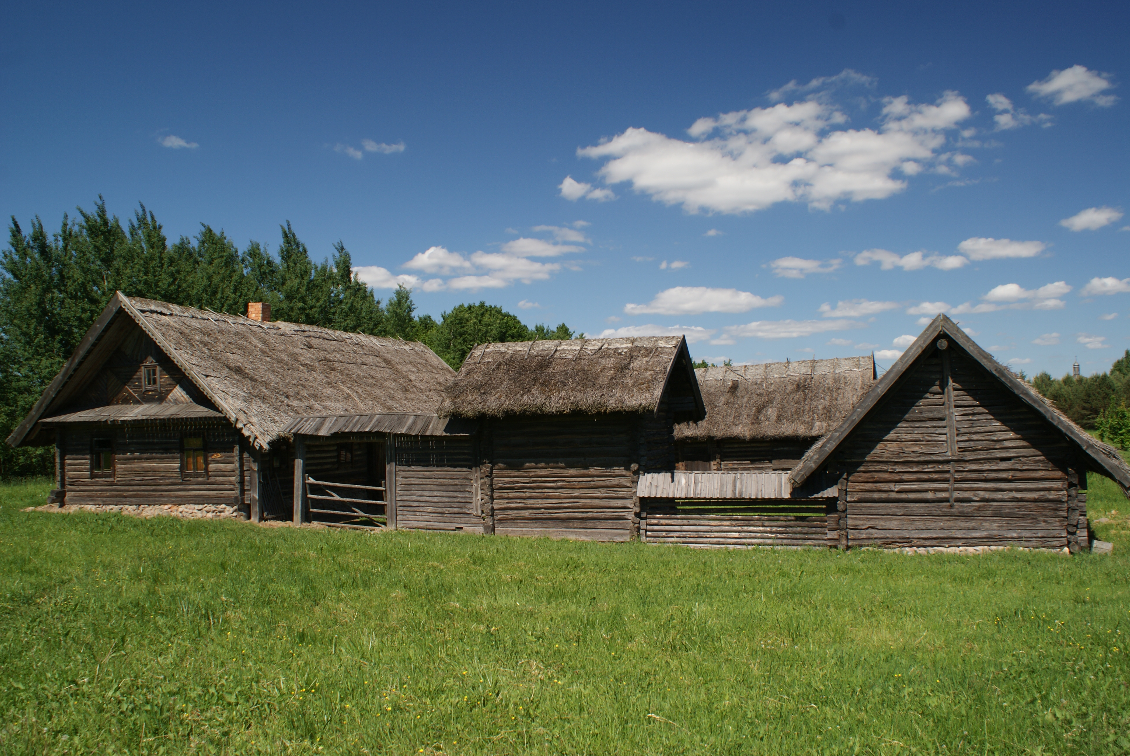 Yard in State museum of folk architecture and life, Belarus